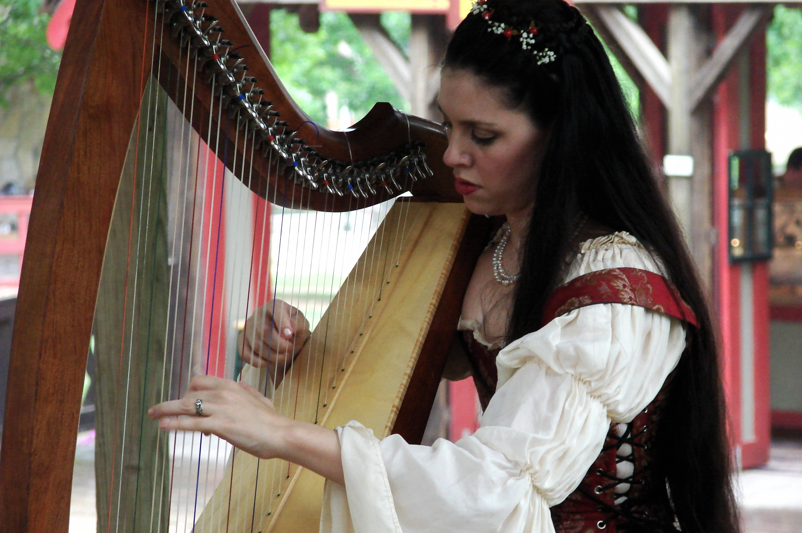 Harp player Sarah Marie Mullen at Scarborough Faire (Waxahachie, Texas)